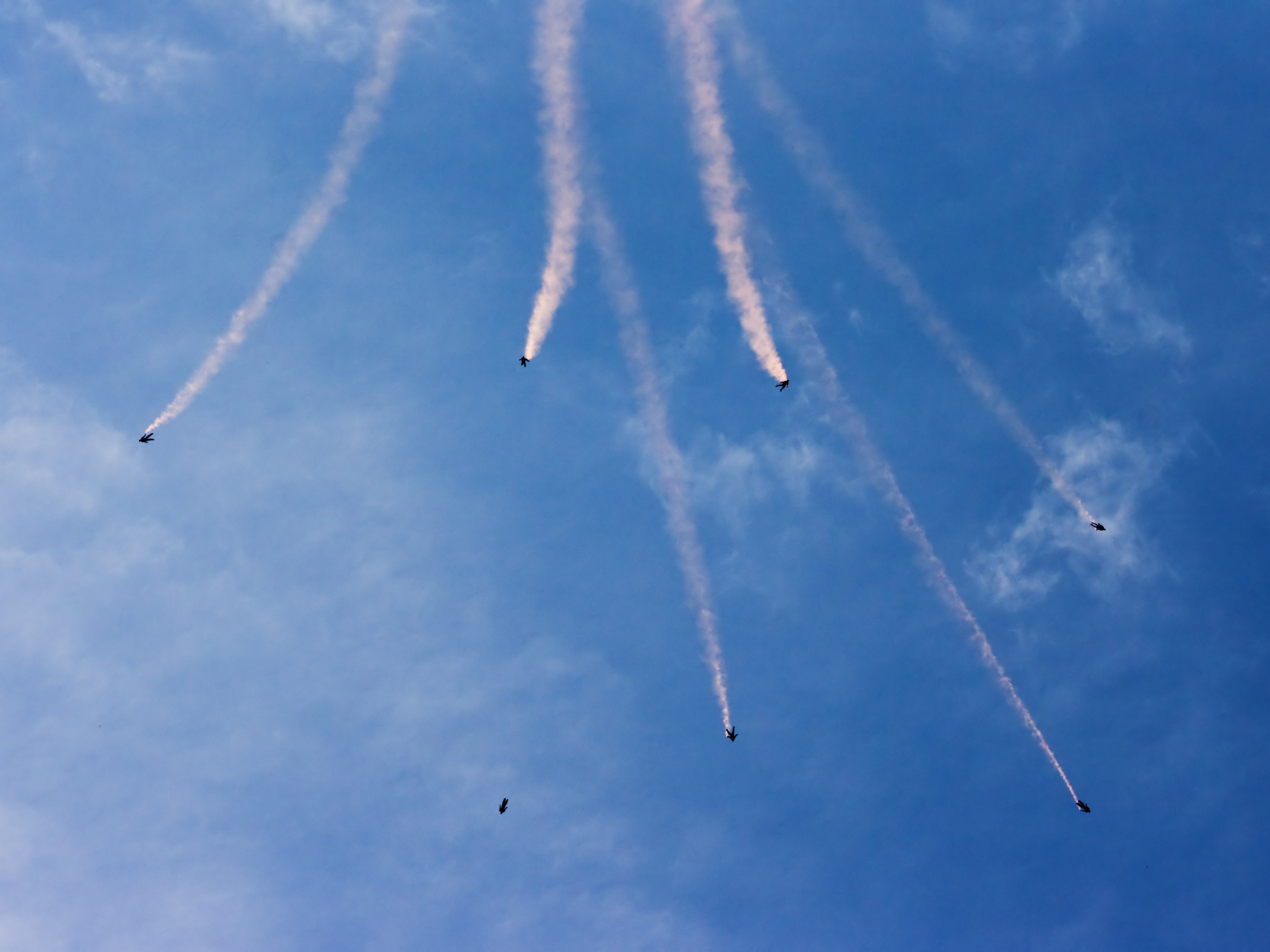 Skydivers breaking formation